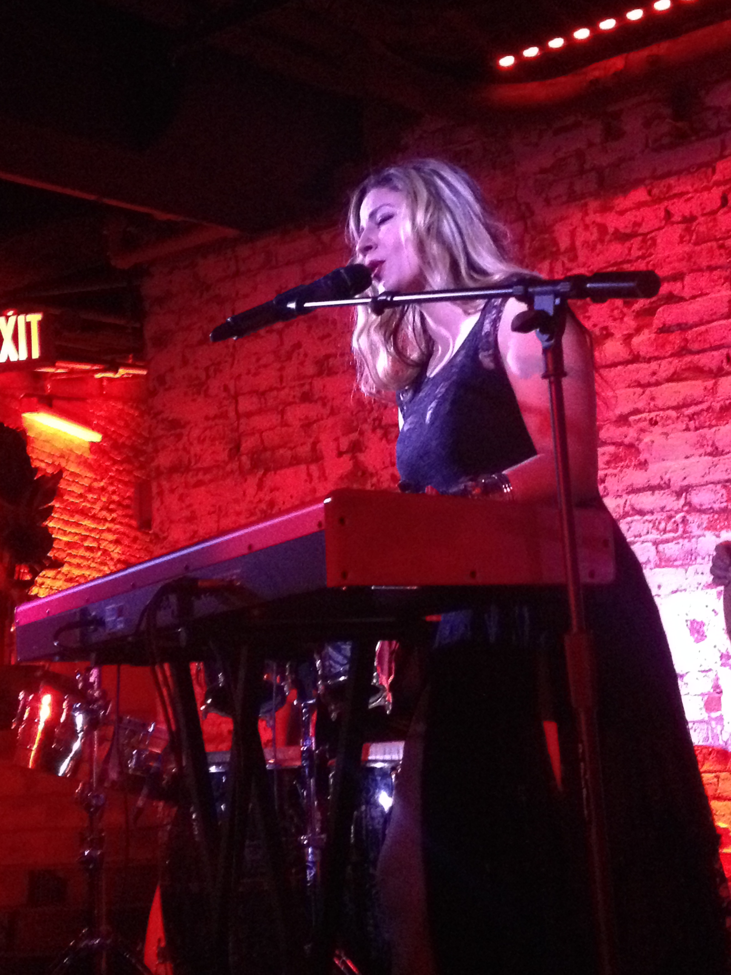 at Subrosa in NYC (Feb, 2015)